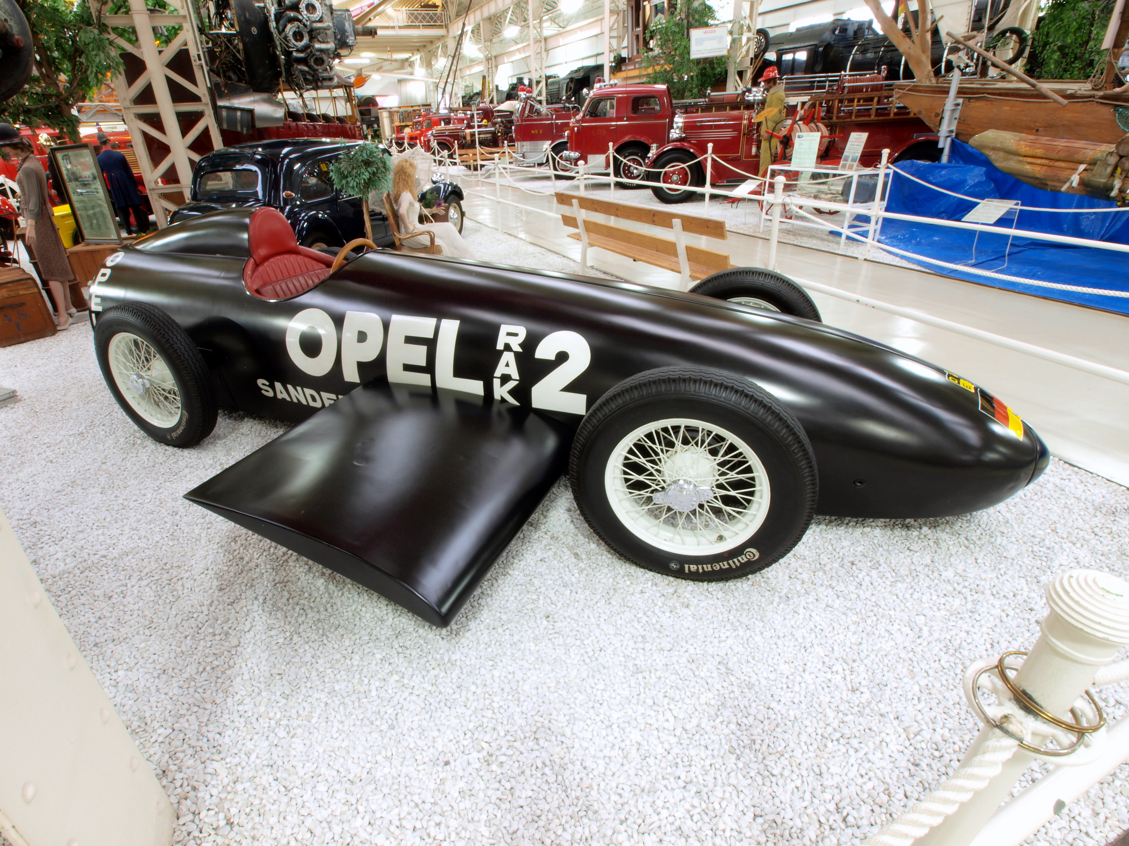 Photographed at the Technik Museum Speyer, Germany.